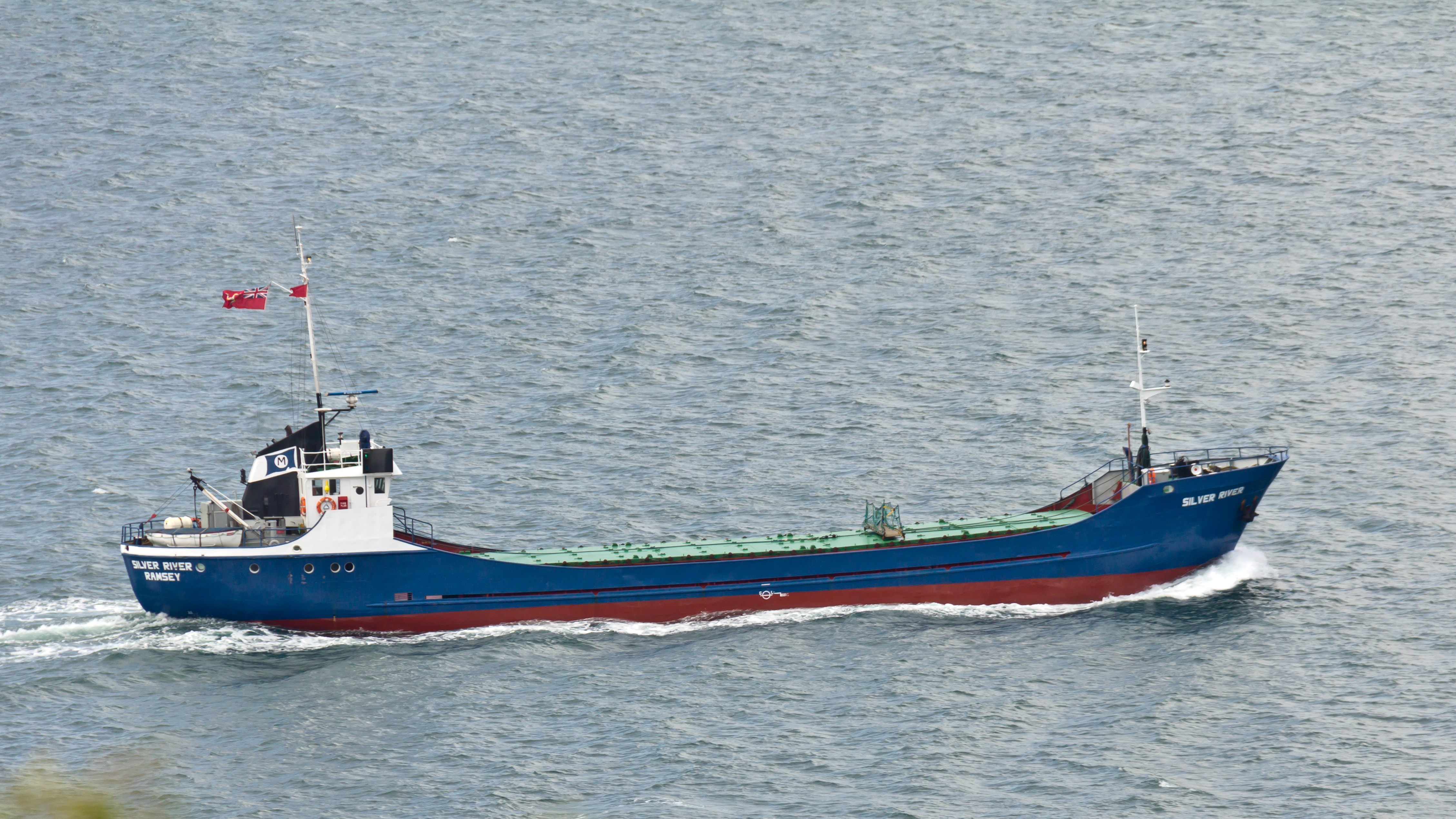 The coaster Silver River (IMO: 6825218) in front of the coast of Roseland Peninsula, Cornwall